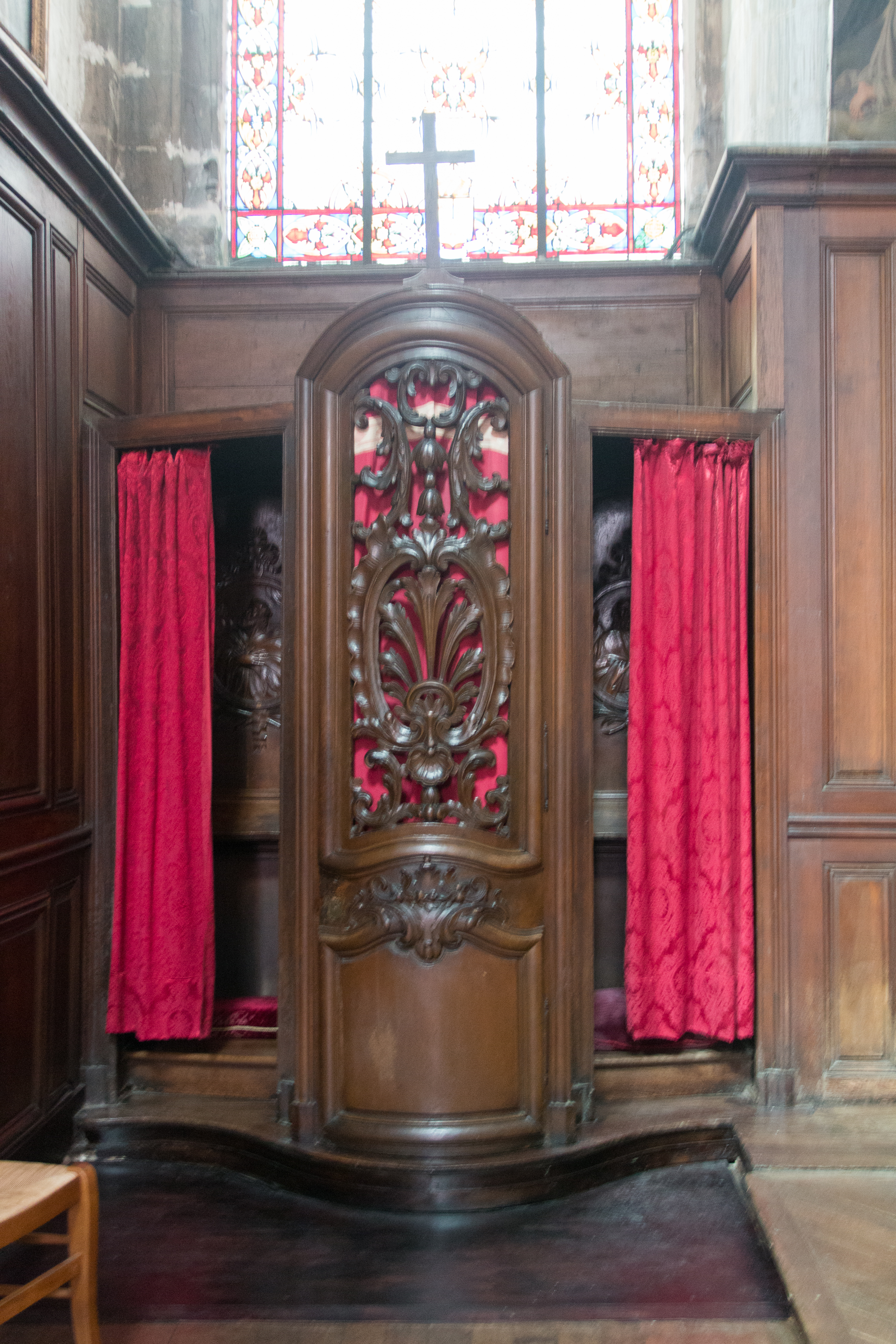 Wood carved joinery of the church